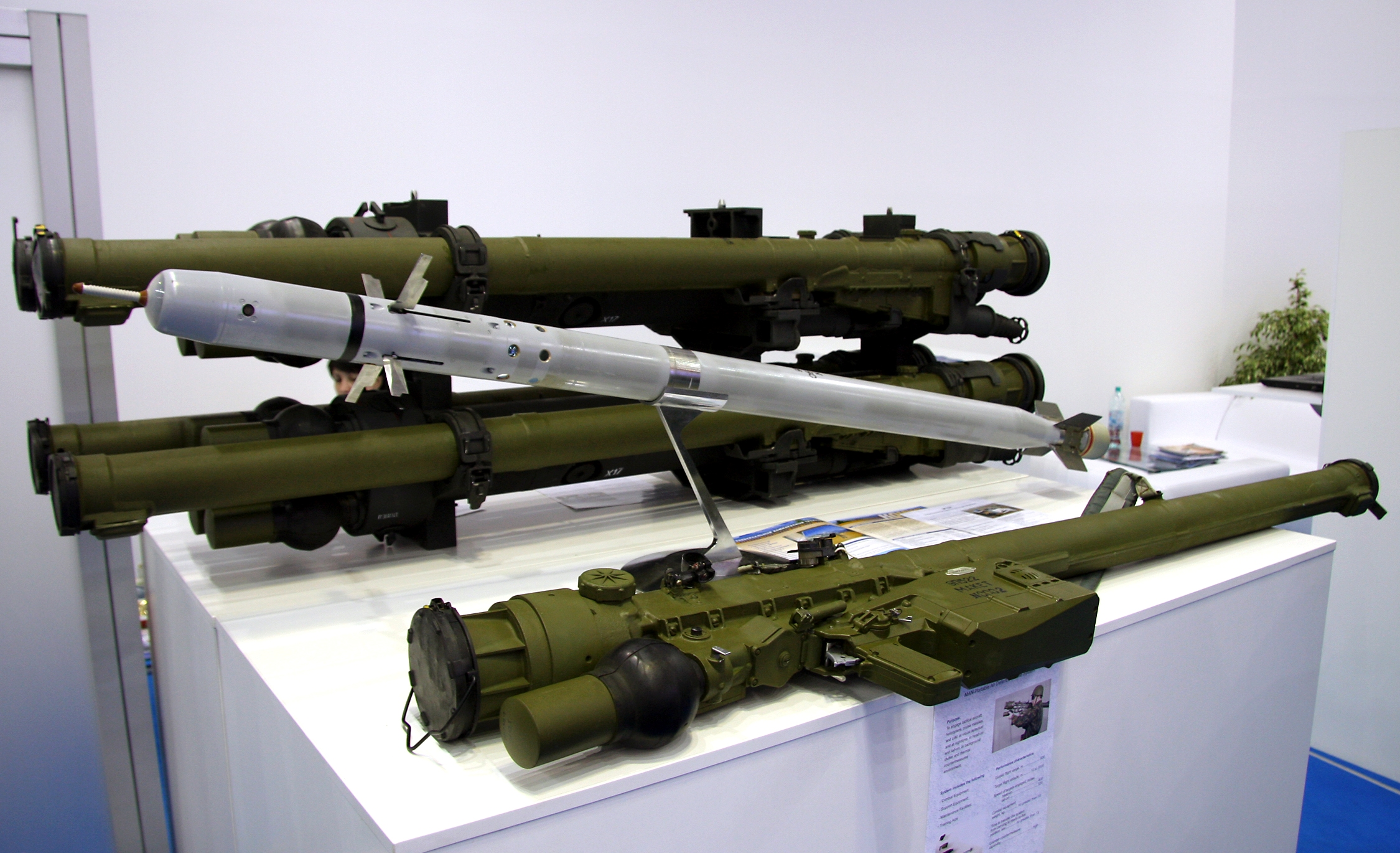 Igla-S MANPADS and Strelets set for firing of missiles of Igla-type MANPADS.